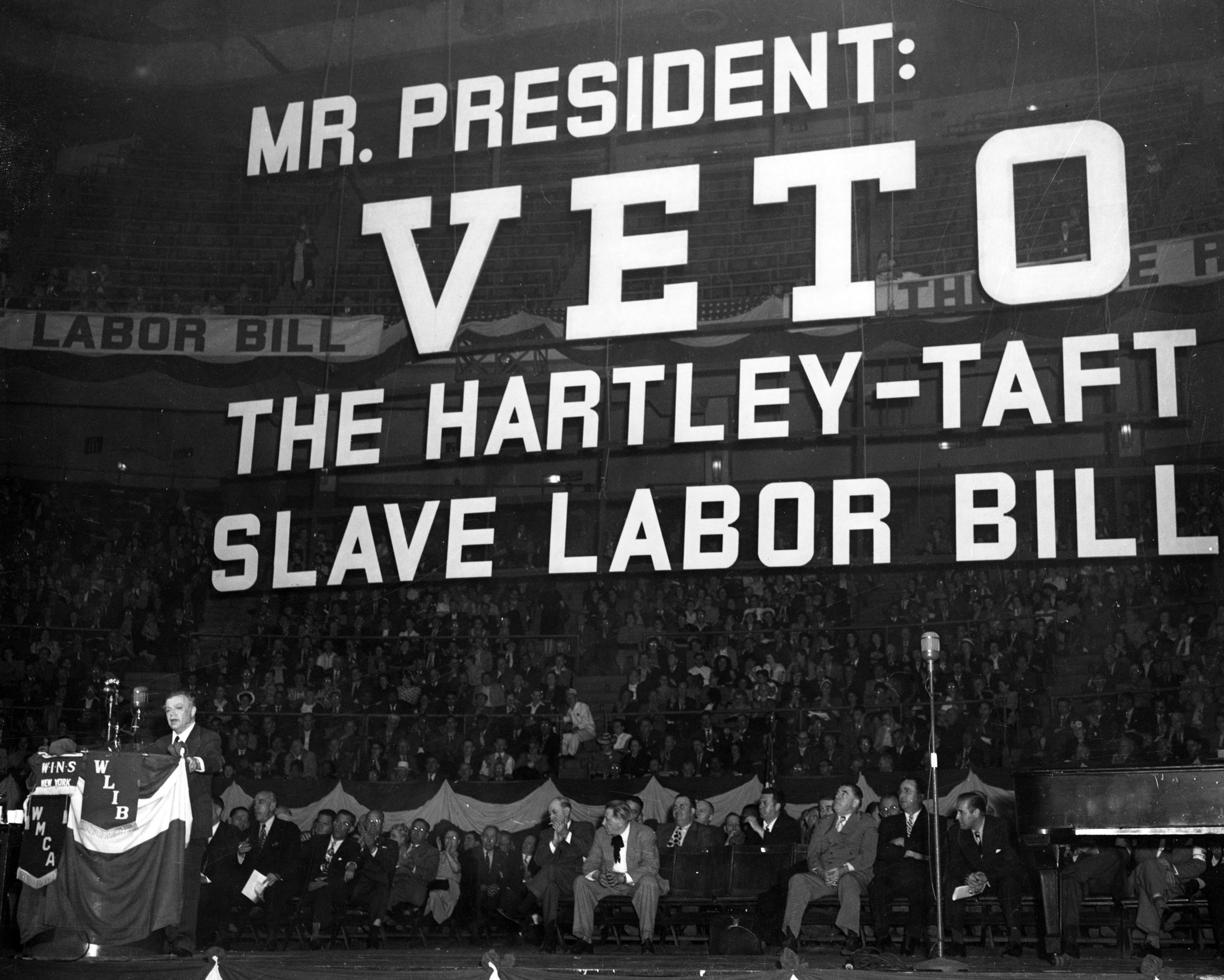 Title: David Dubinsky gives a speech against the Hartley-Taft bill, with Luigi Antonini in the audience, May 4, 1947. Date: 1947 Photographer: Unknown Photo ID: 5780PB17F25D Collection: International Ladies Garment Workers Union Photographs (1885-1985) Repository: The Kheel Center for Labor-Management Documentation and Archives in the ILR School at Cornell University is the Catherwood Library unit that collects, preserves, and makes accessible special collections documenting the history of the workplace and labor relations. Notes: No additional information available. Copyright: The copyright status of this image is unknown. It may also be subject to third party rights of privacy or publicity. Images are being made available for purposes of private study, scholarship, and research. The Kheel Center would like to learn more about this image and hear from any copyright owners who are not properly identified so that we may make the necessary corrections. Tags: Kheel Center for Labor-Management Documentation and Archives,Cornell University Library,Labor Leaders, Political Action, Speeches, Wages